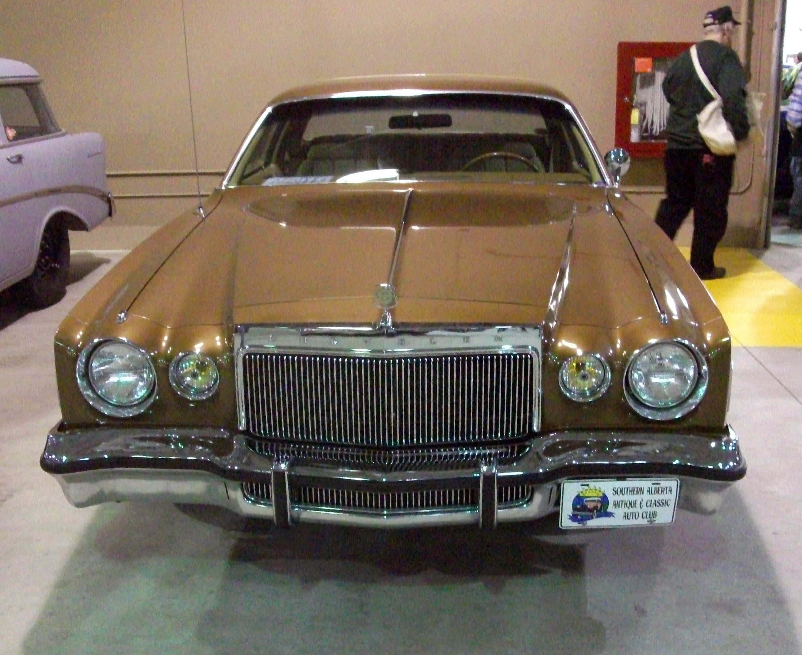 1976 Chrysler Cordoba with an amazing 21k miles on it. Had the 400cid V8 engine.